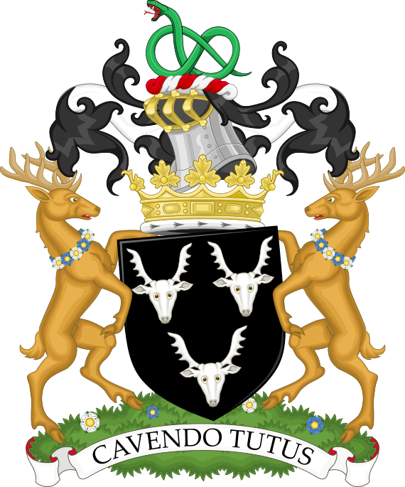 coat of arms of the duke of Devonshire Arms. Sable three Bucks' heads cabossed Argent. Crest. A Serpent nowed proper. Supporters. On either side a Buck proper wreathed round the neck with a Chaplet of Roses alternately Argent and Azure. Motto. Cavendo Tutus (Secure by caution). Cracroft's Peerage